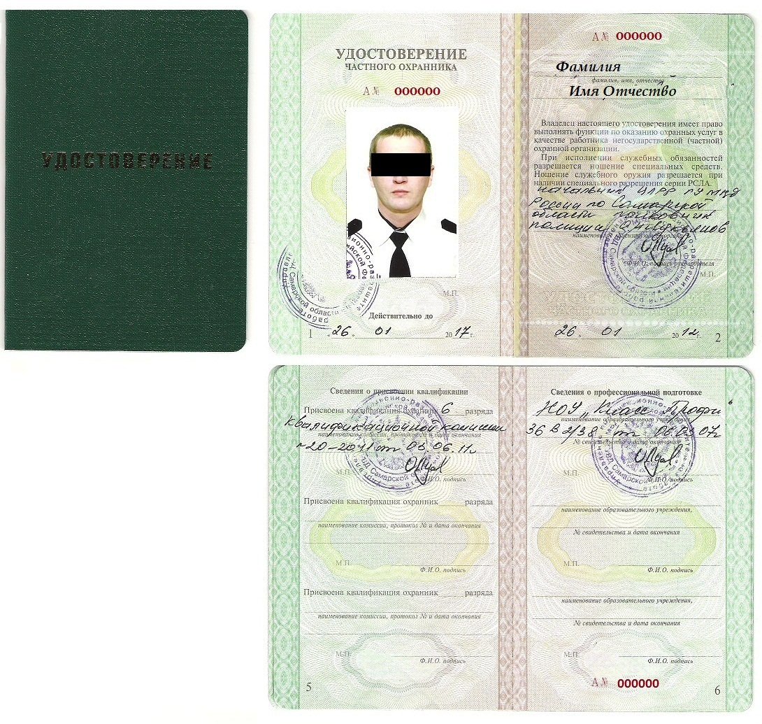 Identity cards / license private security guard in Russia. Sample of a single standard, is issued the Ministry of Internal Affairs of Russia